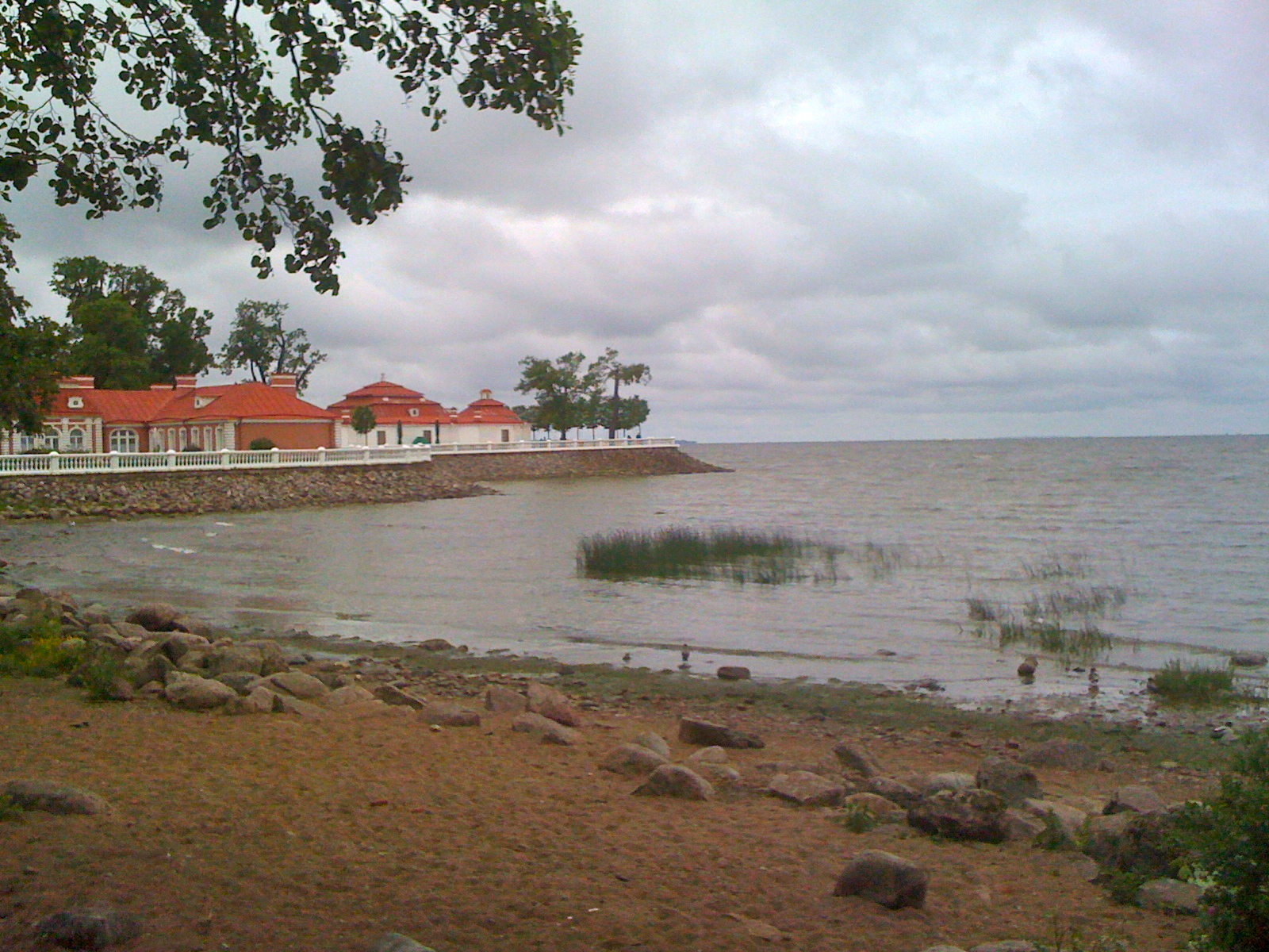 Neva Bay, Peterhof side